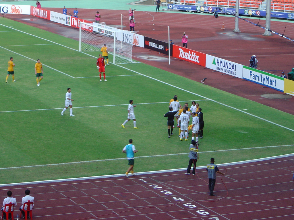 The players get a little heated during the Iraq V Australia match. Iraq won 3:1